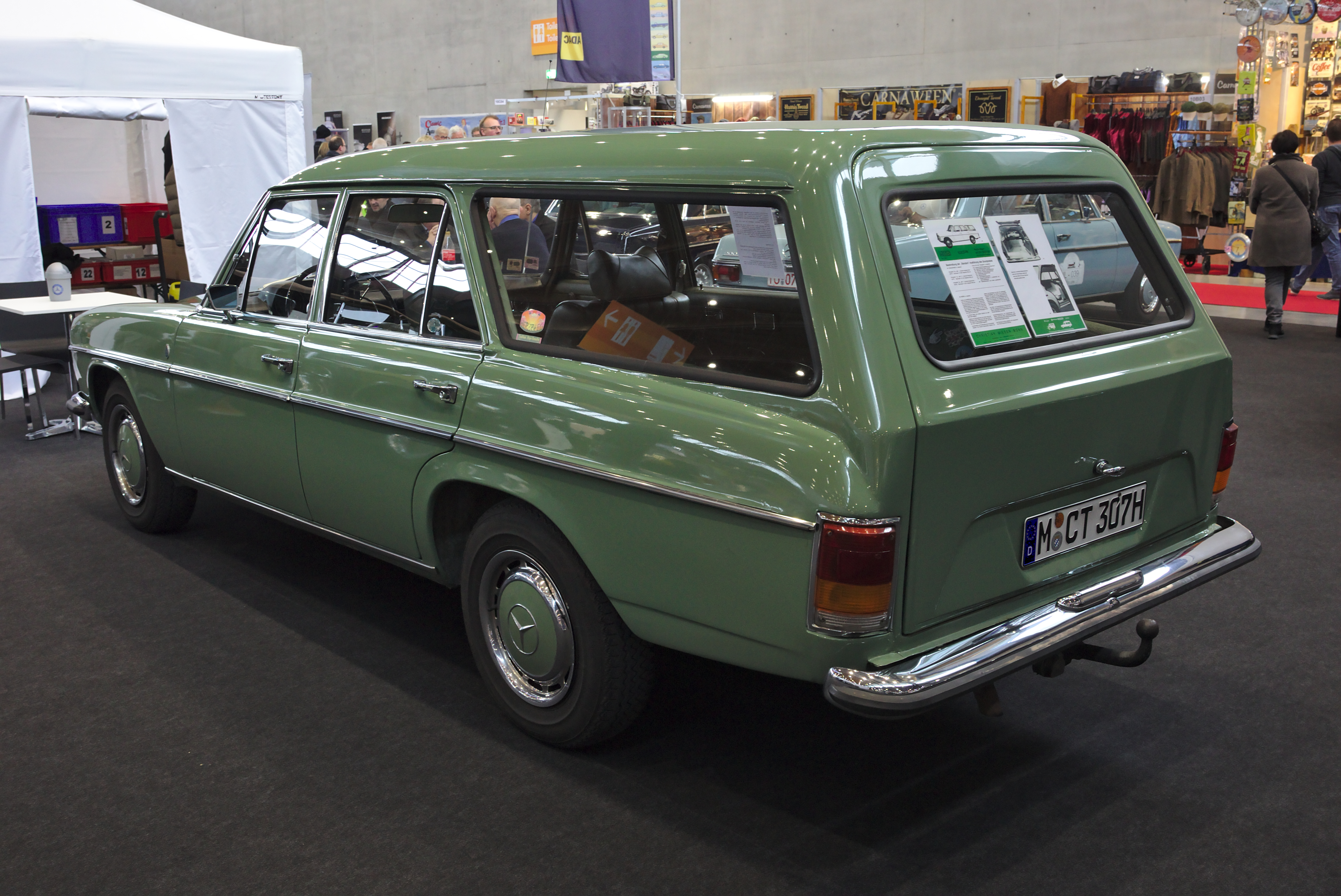 Mercedes-Benz Strich-8 Kombi (Cristian Miesen, Bonn) at Retro Classics 2018